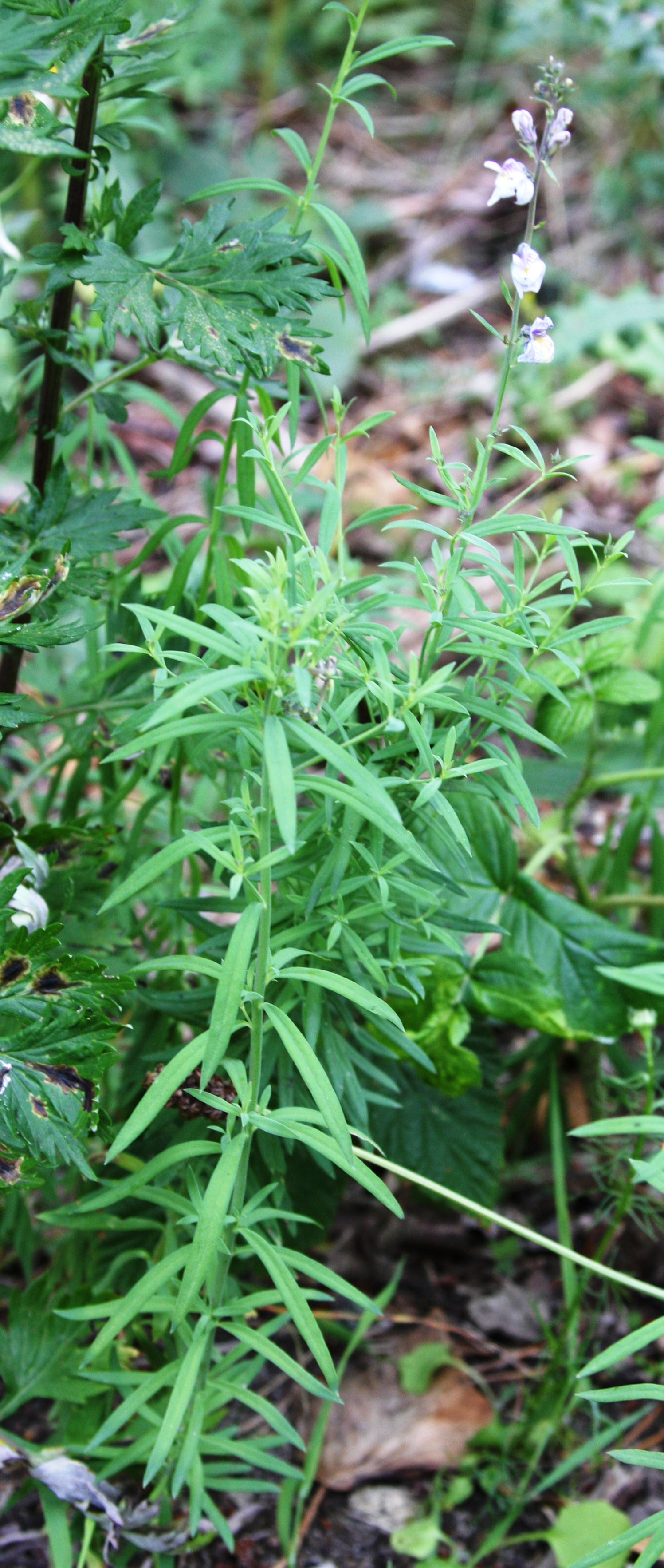 Linaria repens growing in the Risöbank garden of Mandal, south NorwayNorsk bokmål: Stripetorskemunn (Linaria repens) i Risøbank-hagen i Mandal, Vest-Agder.